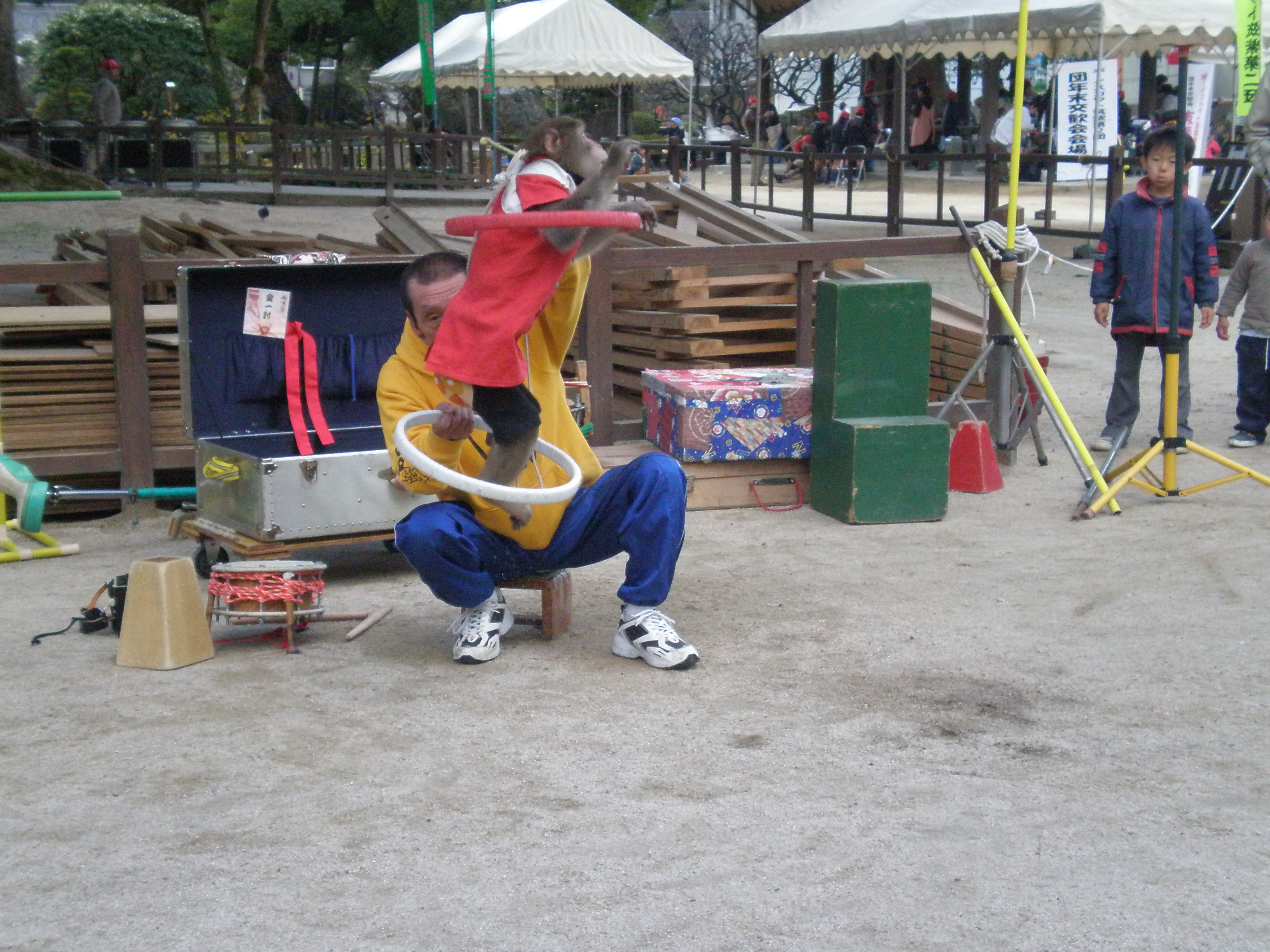 A performing monkey (a macaque) at the Dazaifu Tenman-gū Shinto shrine in Dazaifu, Fukuoka Prefecture, Japan.